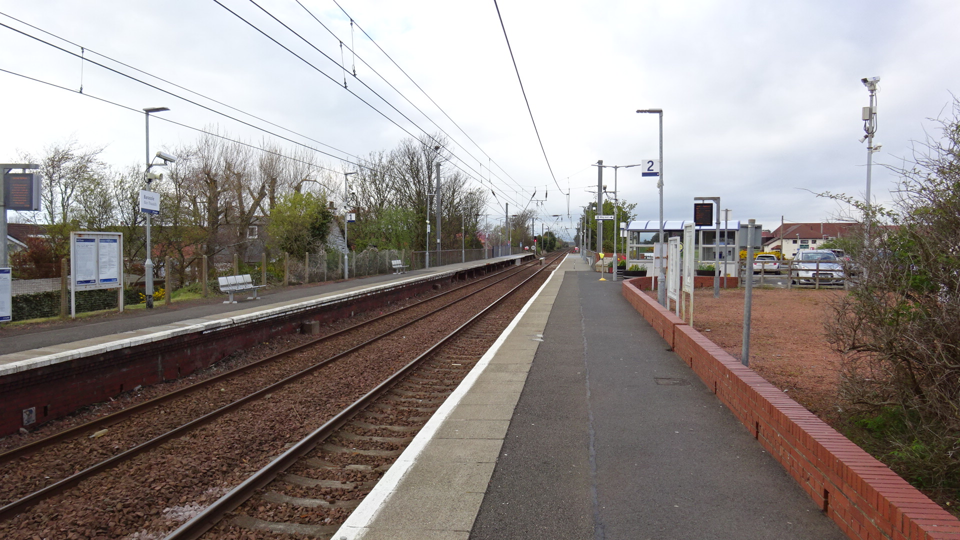 Barassie railway station, view north, South Ayrshire. Scotland